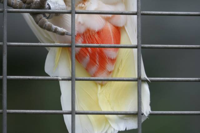 The red tail feathers of the Red-vented Cockatoo